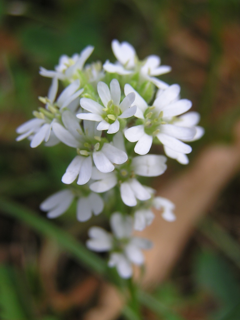 Hoary Alyssum (Berteroa incana) in Bonn.